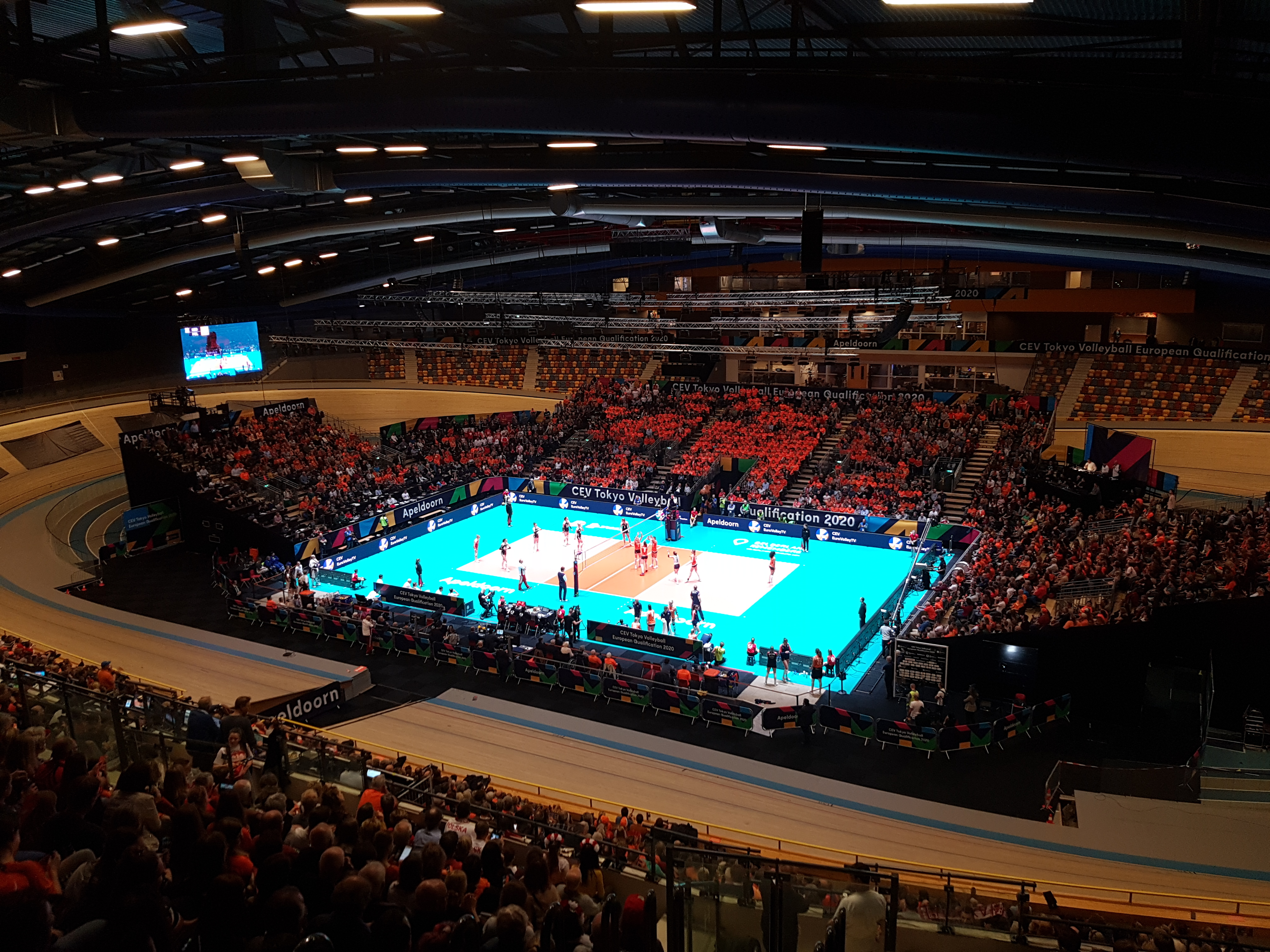 Omnisport Apeldoorn used as volleyball venue during women's Olympic qualification tournament (group stage match between Netherlands and Poland (1:3), 9th january 2020).